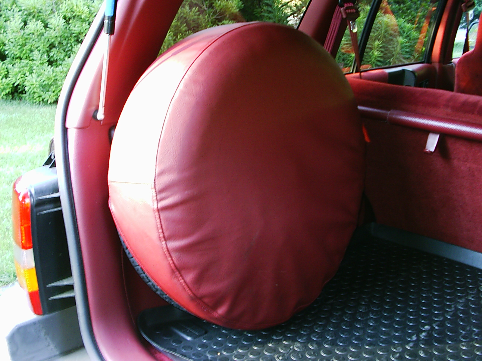 Spare tire (full size) mounted in the cargo space area in a 1993 Jeep Grand Cherokee. This luxurious sport utility (SUV) is finished in Metallic Blackberry (paint code: PM9), a deep burgundy. Equipment includes the Laredo 26F package and the Quadra-Trac full-time all-wheel drive. This is an early production ZJ model that was built in April 1992. The interior is in matching Crimson with cloth upholstery, that was only available at the start of the ZJ's production.